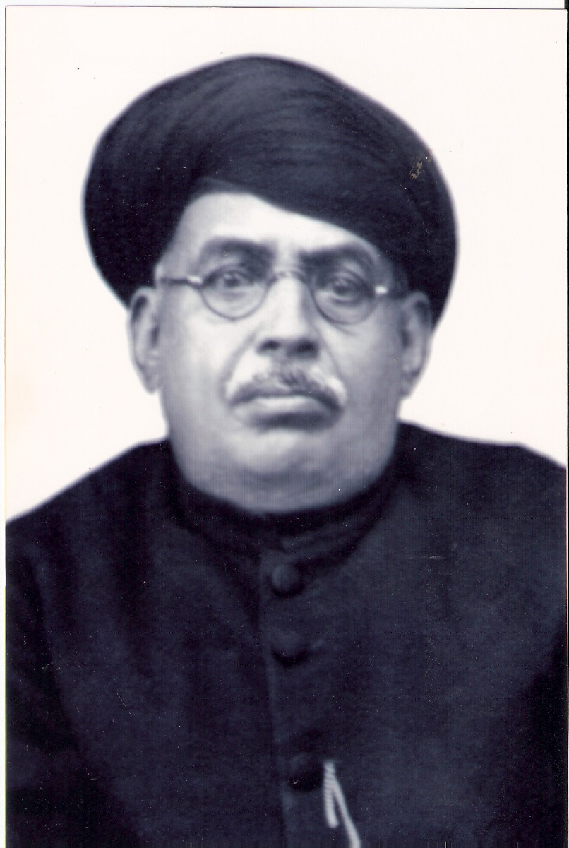 Photo image of Dr. Gaurishankar Hirachand Ojha.